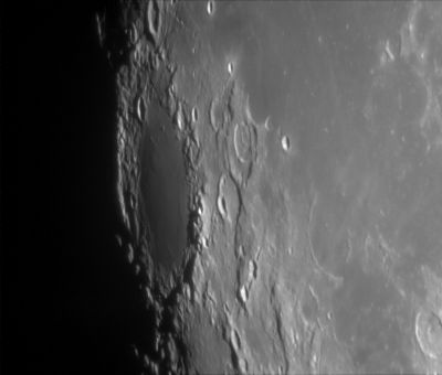 LROC WAC image centred on 0 degrees longitude.